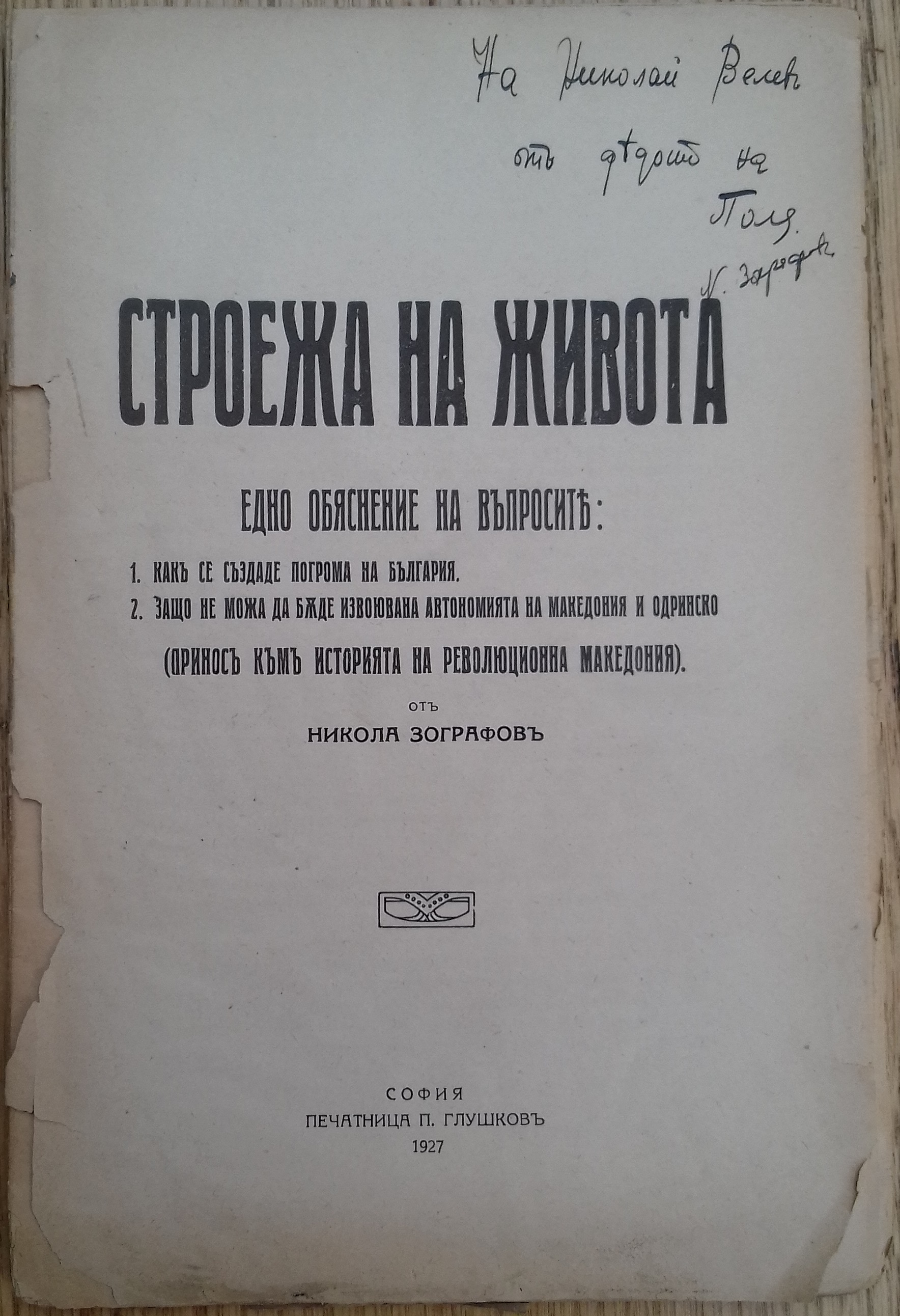 Stroezha na zhivota by Nikola Zografov